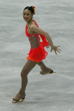 Yukari Nakano during her free program at the 2008 World Championships.